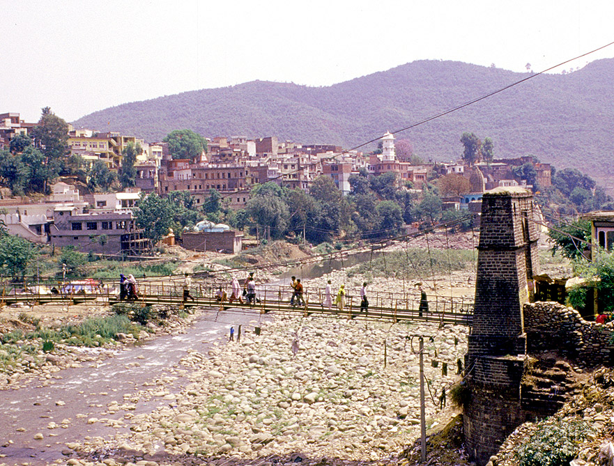 Rajouri town, in Rajouri District, Jammu & Kashmir, India; Photo by Paul La Porte